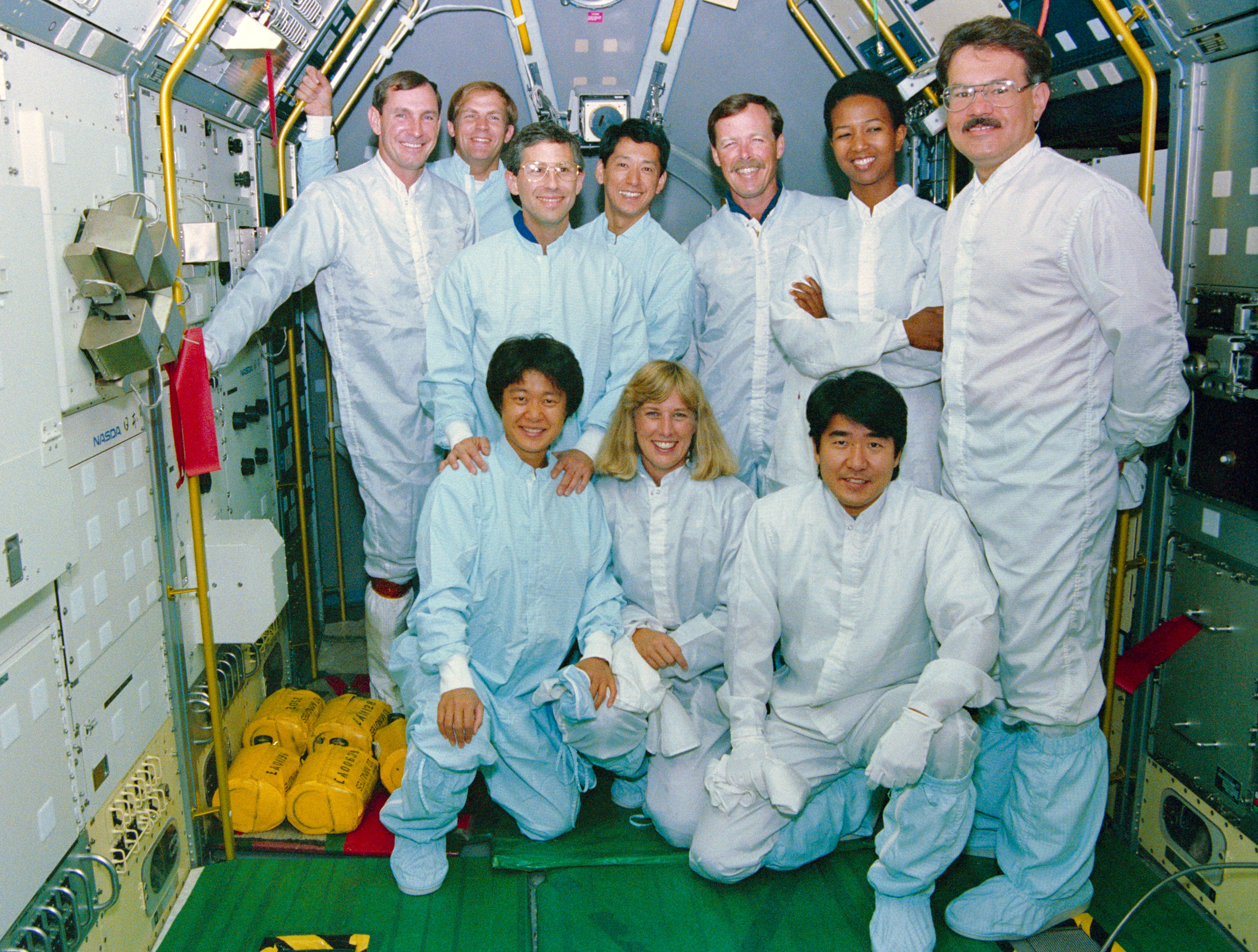 STS-47 Endeavour, Orbiter Vehicle (OV) 105, crewmembers and backup payload specialists, wearing clean suits, pose for a group portrait in the Spacelab Japan (SLJ) module. The team is at the Kennedy Space Center's (KSC's) Orbiter Processing Facility (OPF) to inspect SLJ configuration and OV-105 preparations. Kneeling, from left, are backup Payload Specialist Chiaki Naito-Mukai; Mission Specialist (MS) N. Jan Davis; and backup Payload Specialist Takao Doi. Standing, from the left, are Pilot Curtis L. Brown,Jr; MS and Payload Commander Mark C. Lee; MS Jerome Apt; Payload Specialist Mamoru Mohri; Commander Robert L. Gibson; MS Mae C. Jemison; and backup Payload Specialist Stanely L. Koszelak. Mohri, Mukai, and Doi represent the National Space Development Agency of Japan (NASDA).